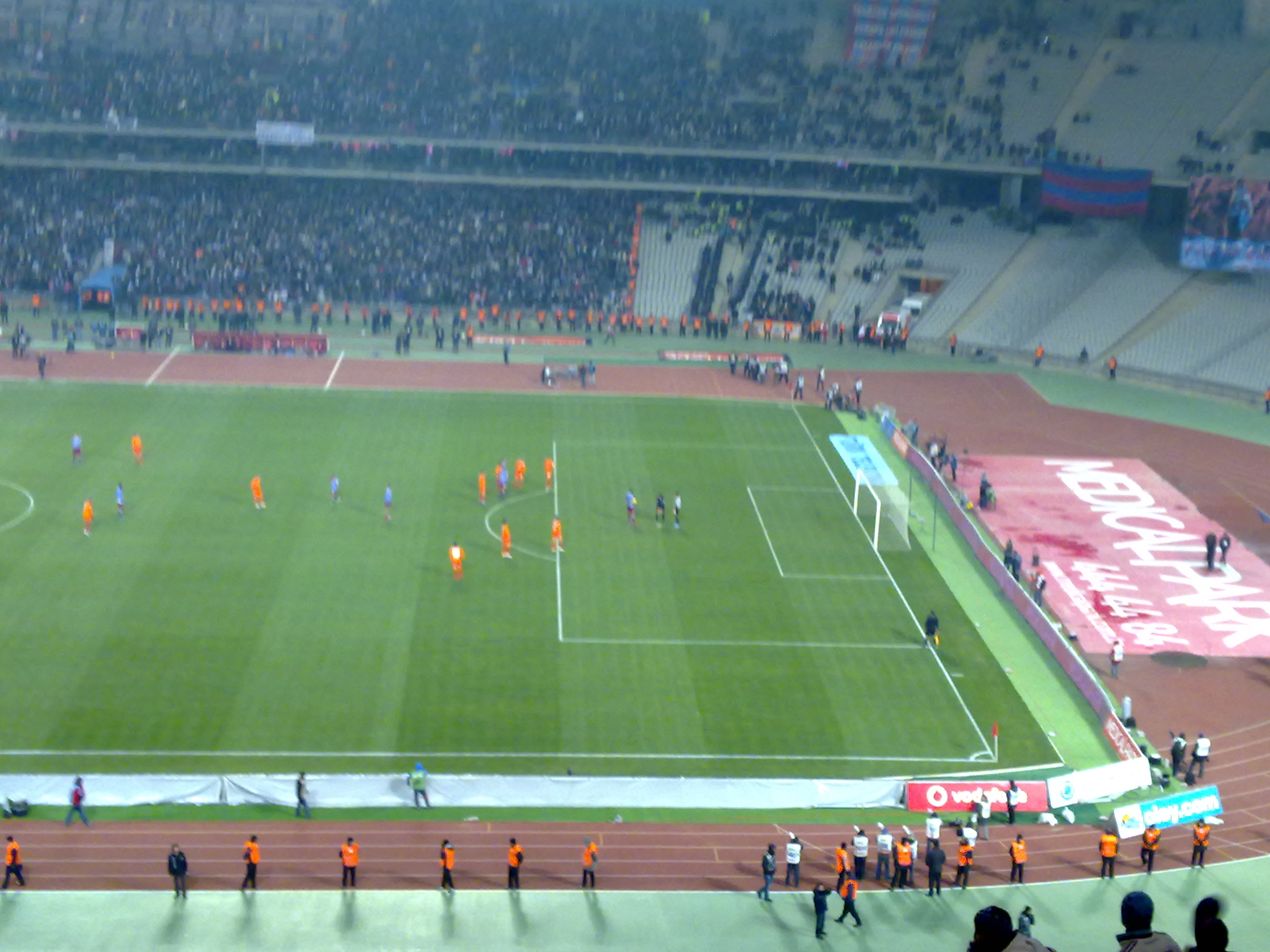 Burak Yılmaz taking penalty kick.